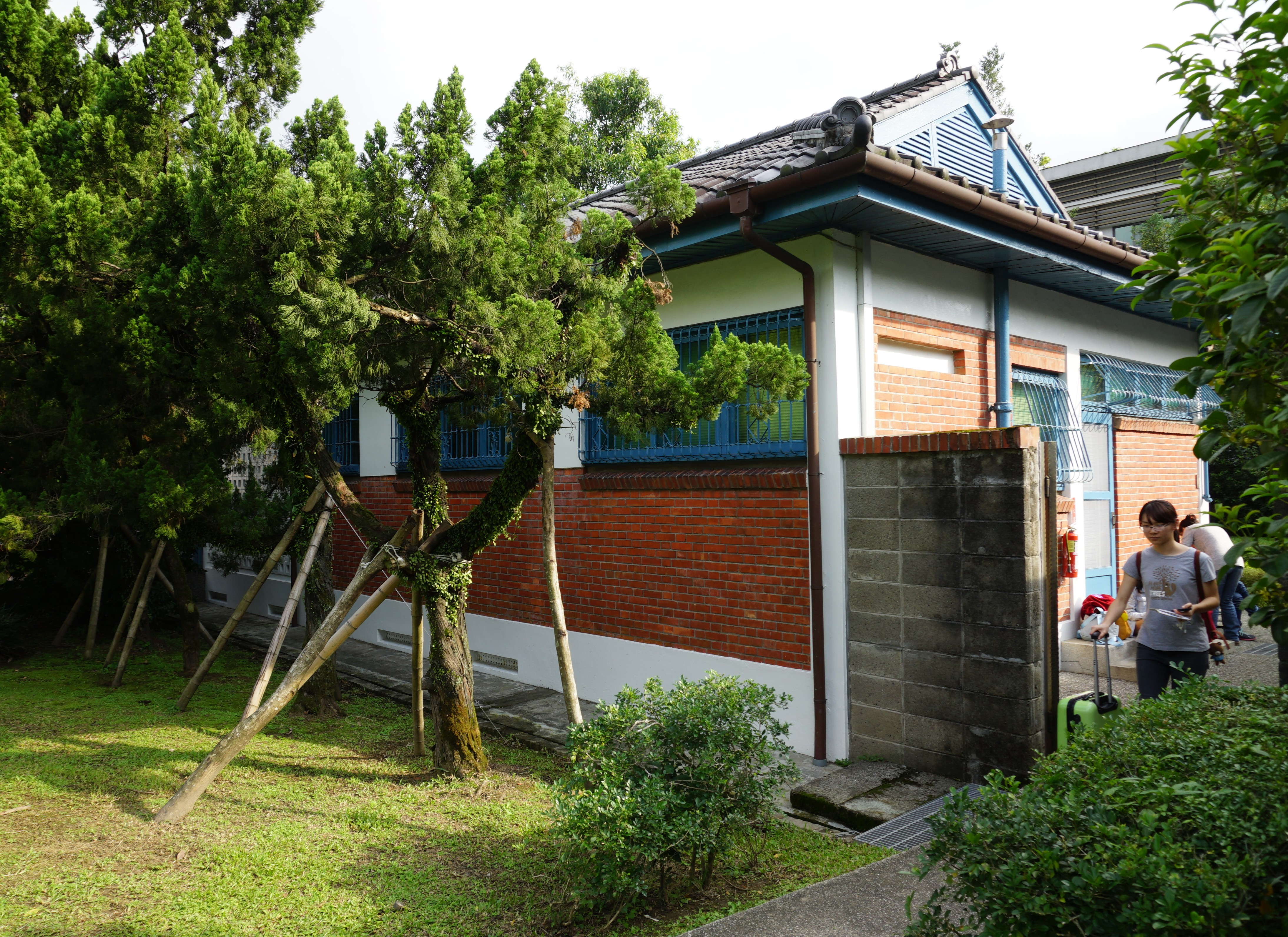 The Hu Shih Memorial Hall, Academia Sinica